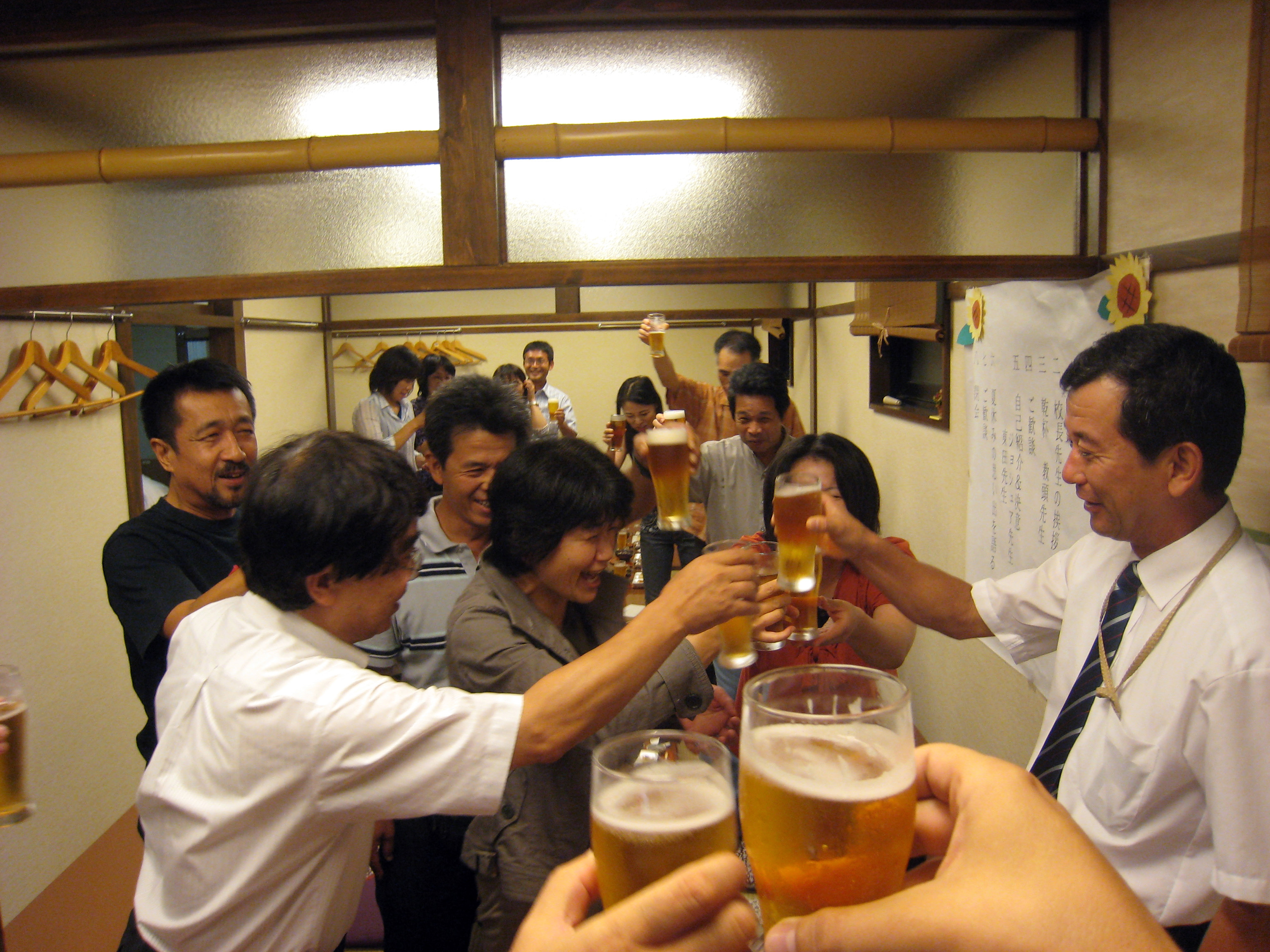 In Japan, enkai proceed in the following fashion: First, a person annouces the beginning of the enkai, and invites the most important person to speak a few words (in this case, the principal). The important person makes a speech, and then everyone stands up, raises their glass, and yells "Kampai!" which means cheers! Glasses are clinked and the party commences.